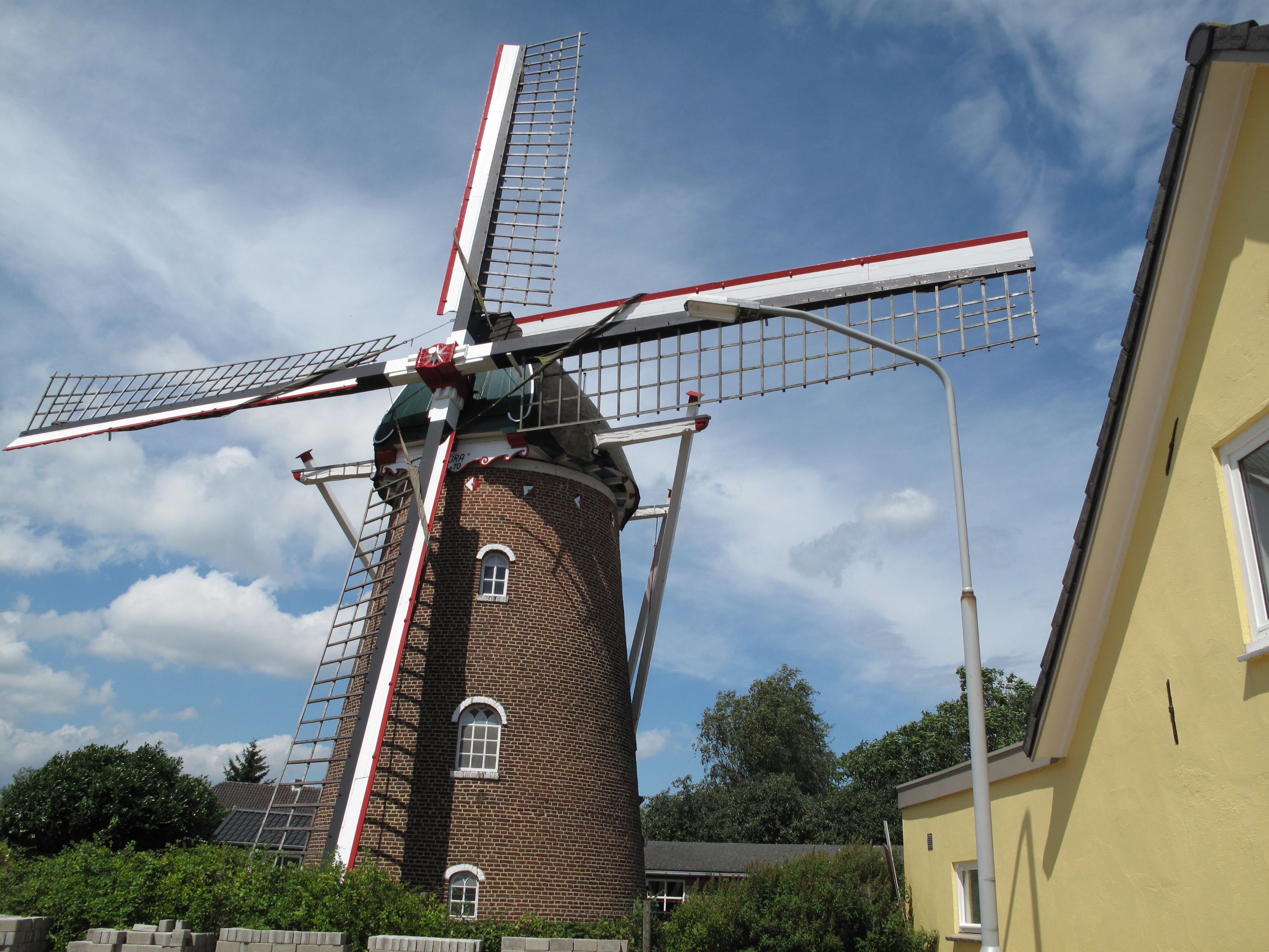 Dichteren, windmill